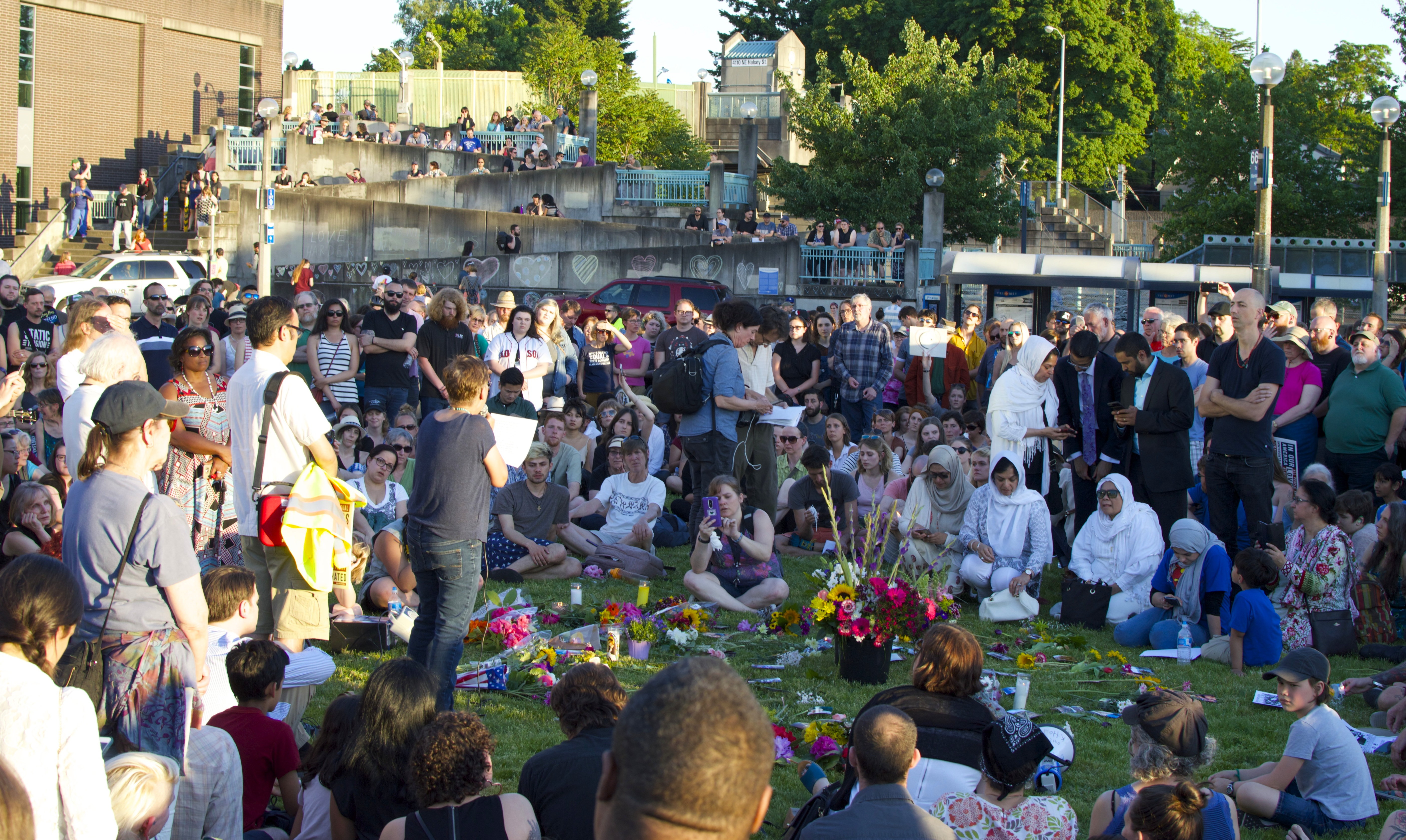 Crowds gather around flowers placed in honor of fallen samaritans Taliesin Myrddin Namkai Meche and Rick Best. A vigil took place the day after the stabbings at Portland's Hollywood transit center. Taken evening of May 27, 2017 at Hollywood transit center.